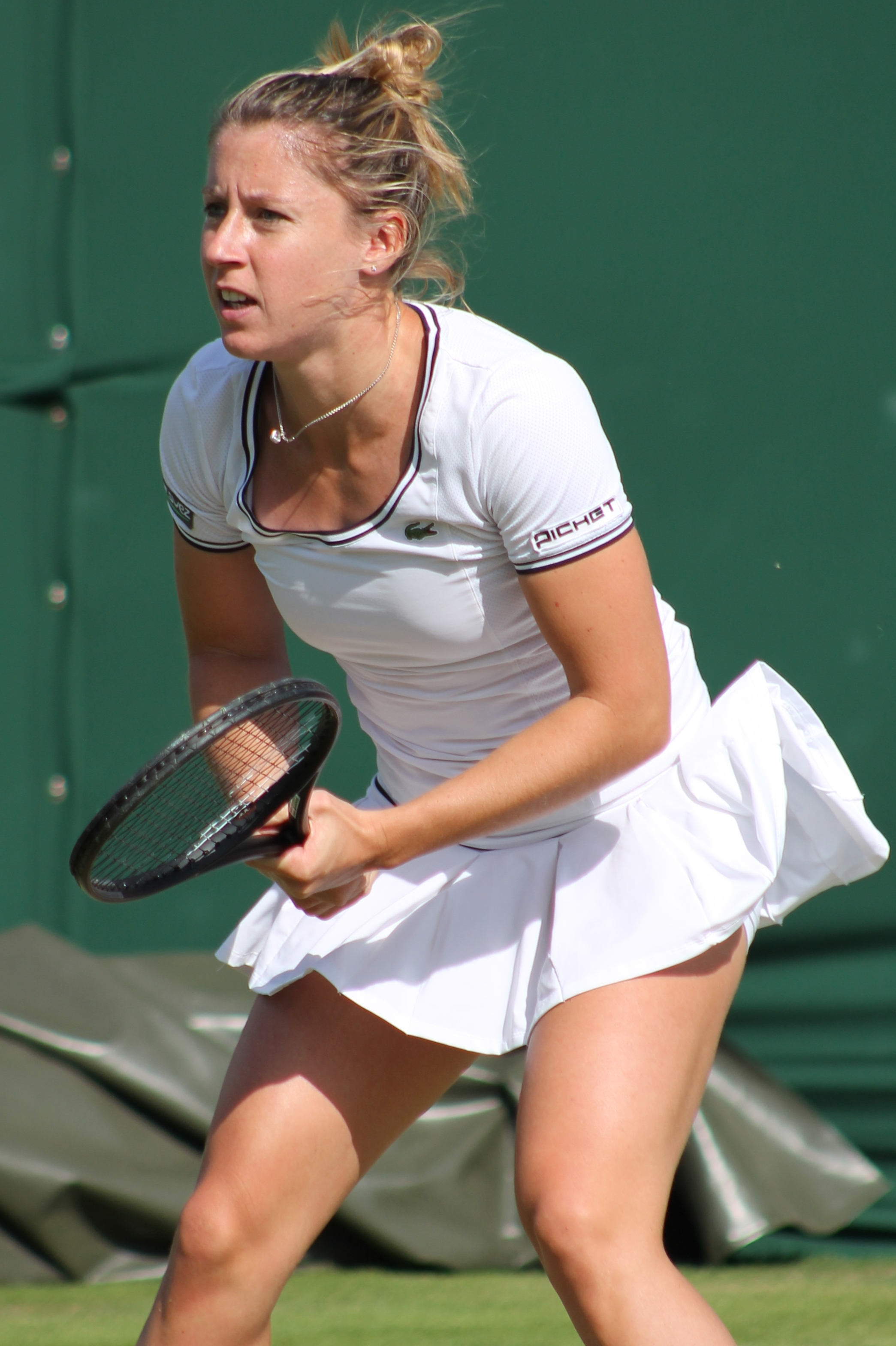 Pauline Parmentier playing in the Ladies Doubles at Wimbledon 2013, Court 10 on 29 June 2013; partner was Alize Cornet (FRA); opponents were Julia Goerges (GER) & Barbora Zahlavova Strycova (CZE)